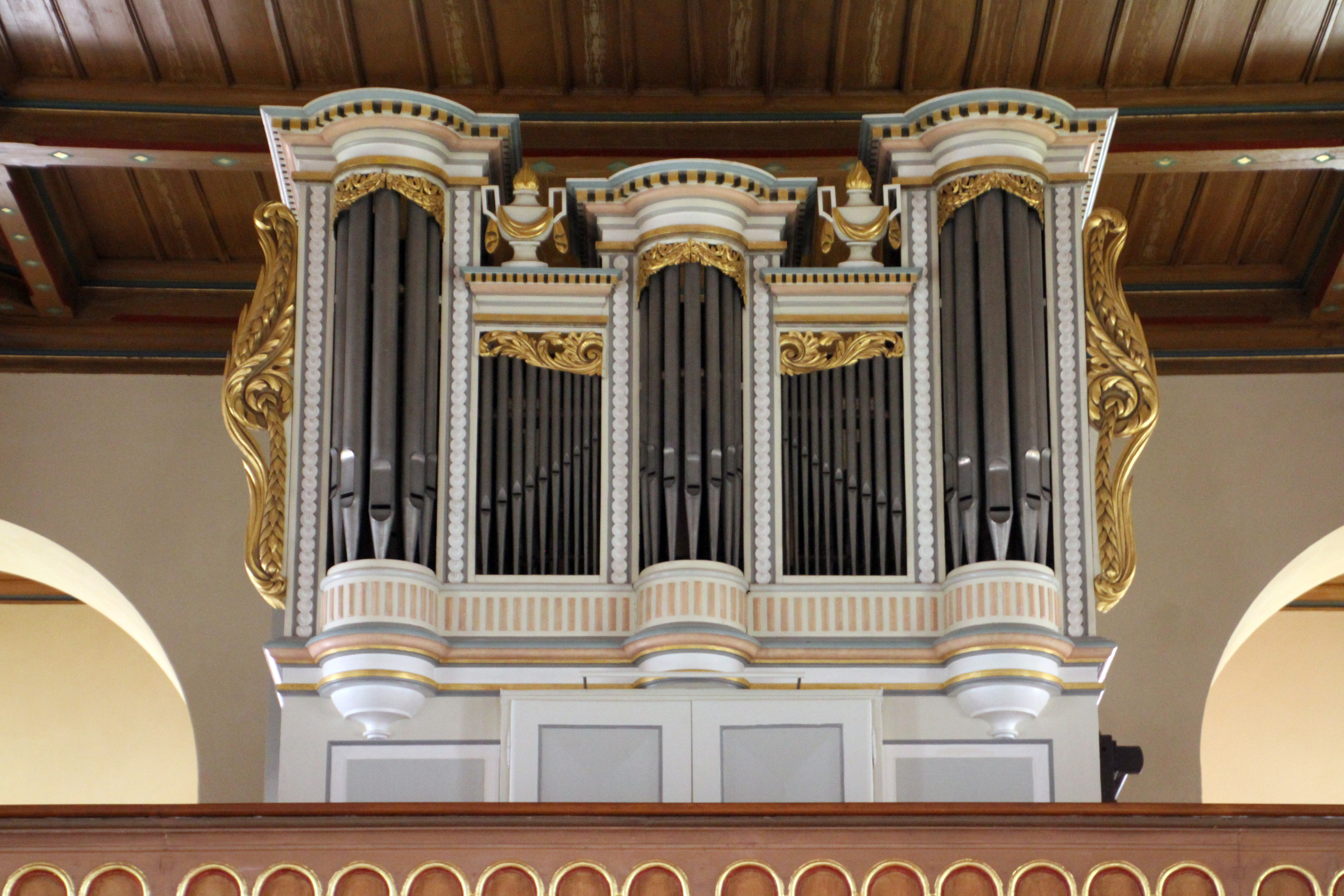 Church of St. Michael in Bobenthal, interior decoration.